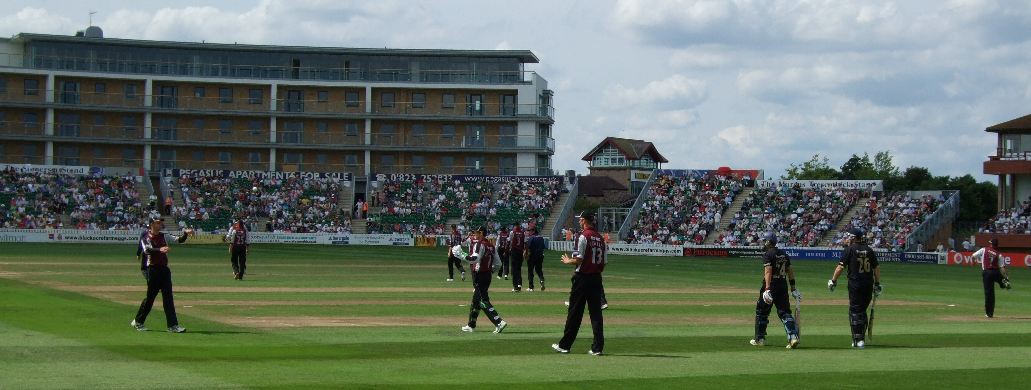 A view across the County Ground Taunton, looking towards the Somerset stand and the Marcus Trescothick stand. Somerset are playing Yorkshire in a Pro40 match, with the two sides walking out for Yorkshire's innings. The Yorkshire batsmen are Andrew Gale and Jacques Rudolph